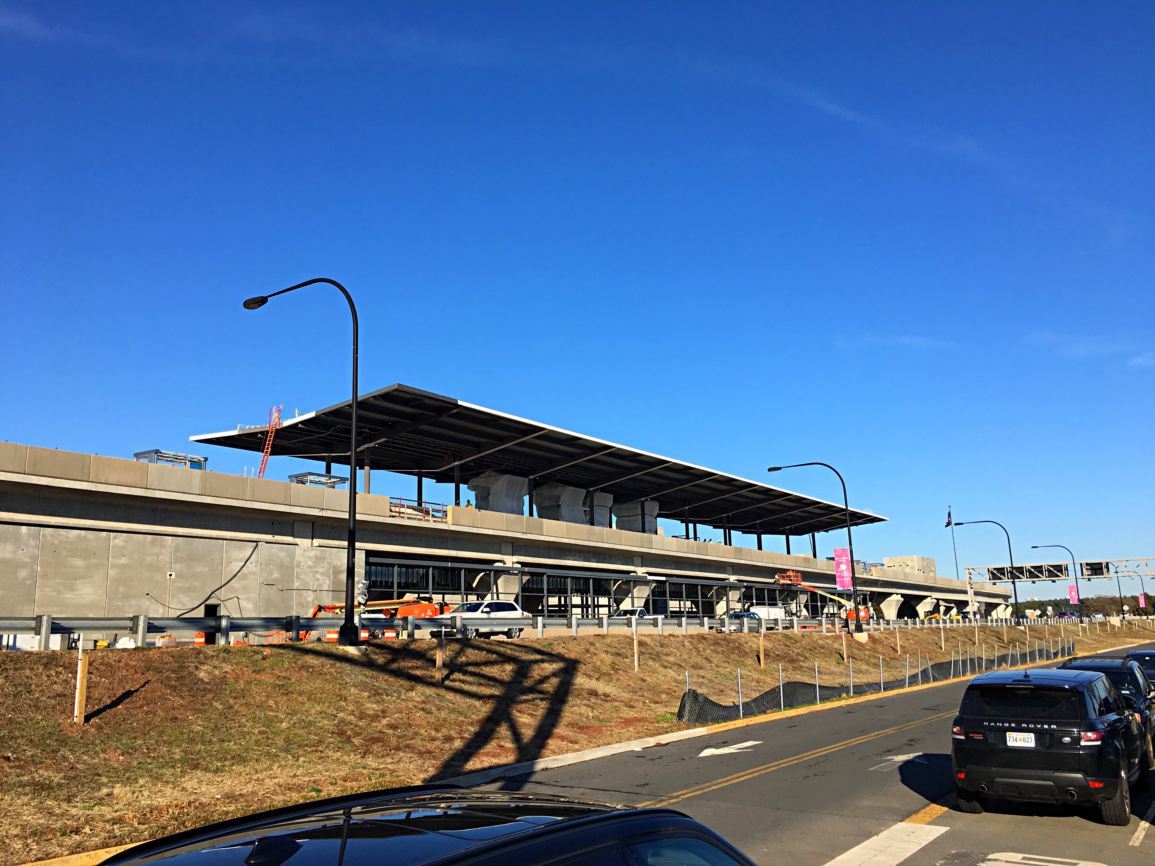 Under construction Dulles Airport Metro station